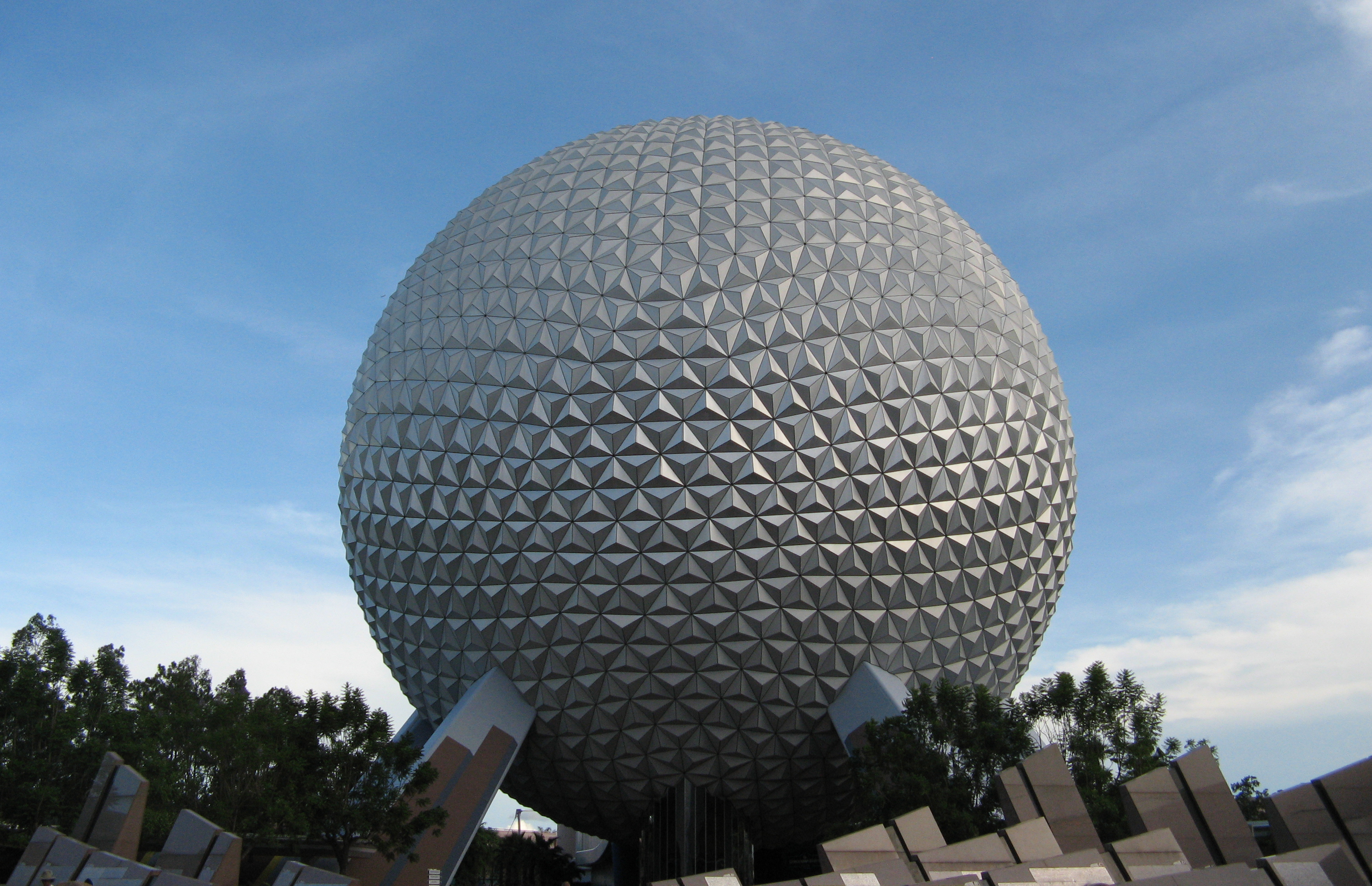 Spaceship Earth at EPCOT in Walt Disney World Resort, FL on July 06, 2008